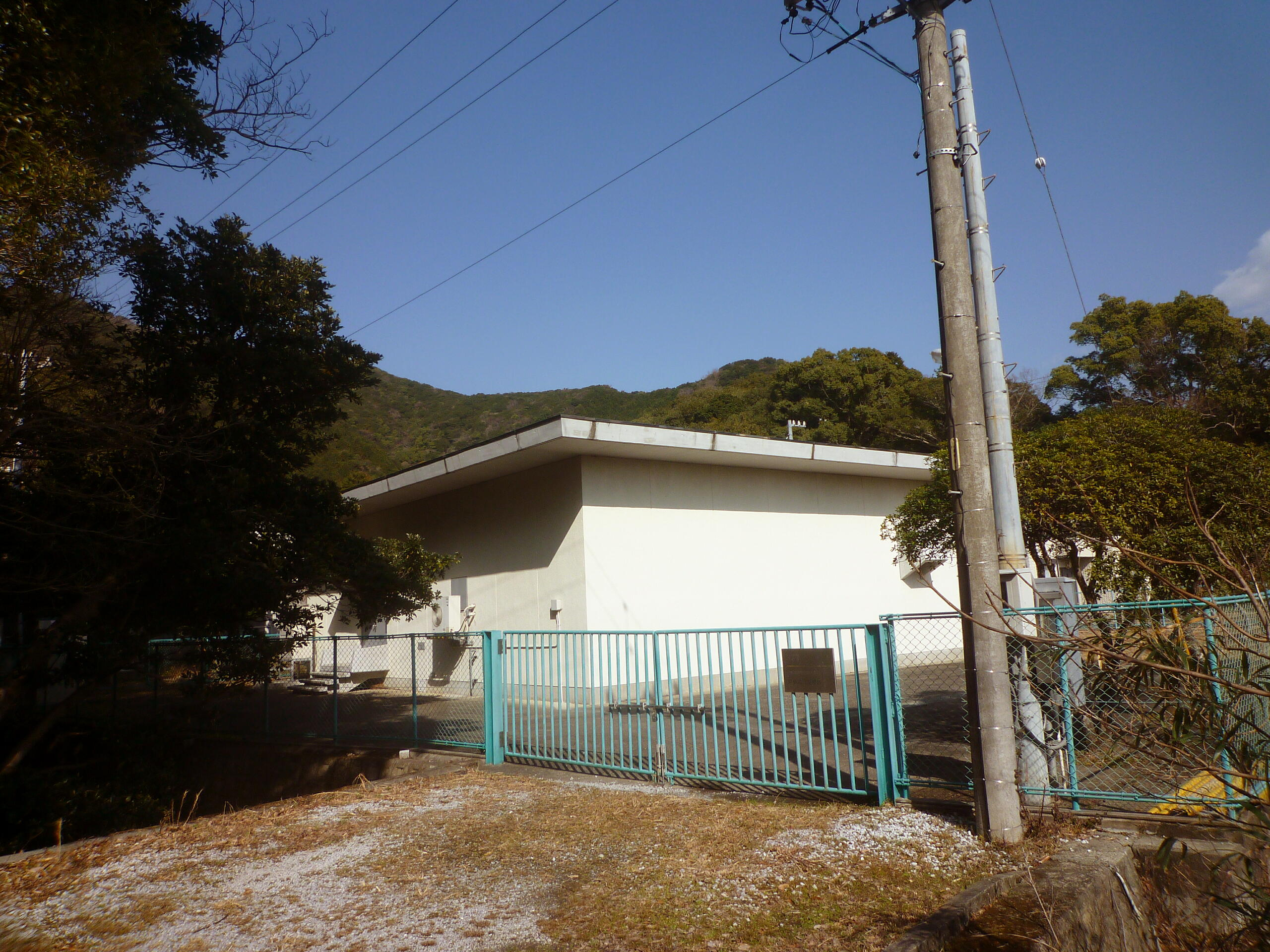 The "NTT Tashikara Telephone Exchange Building" in Michikata, Minamiise Town, Watarai District, Mie Prefecture, Japan.